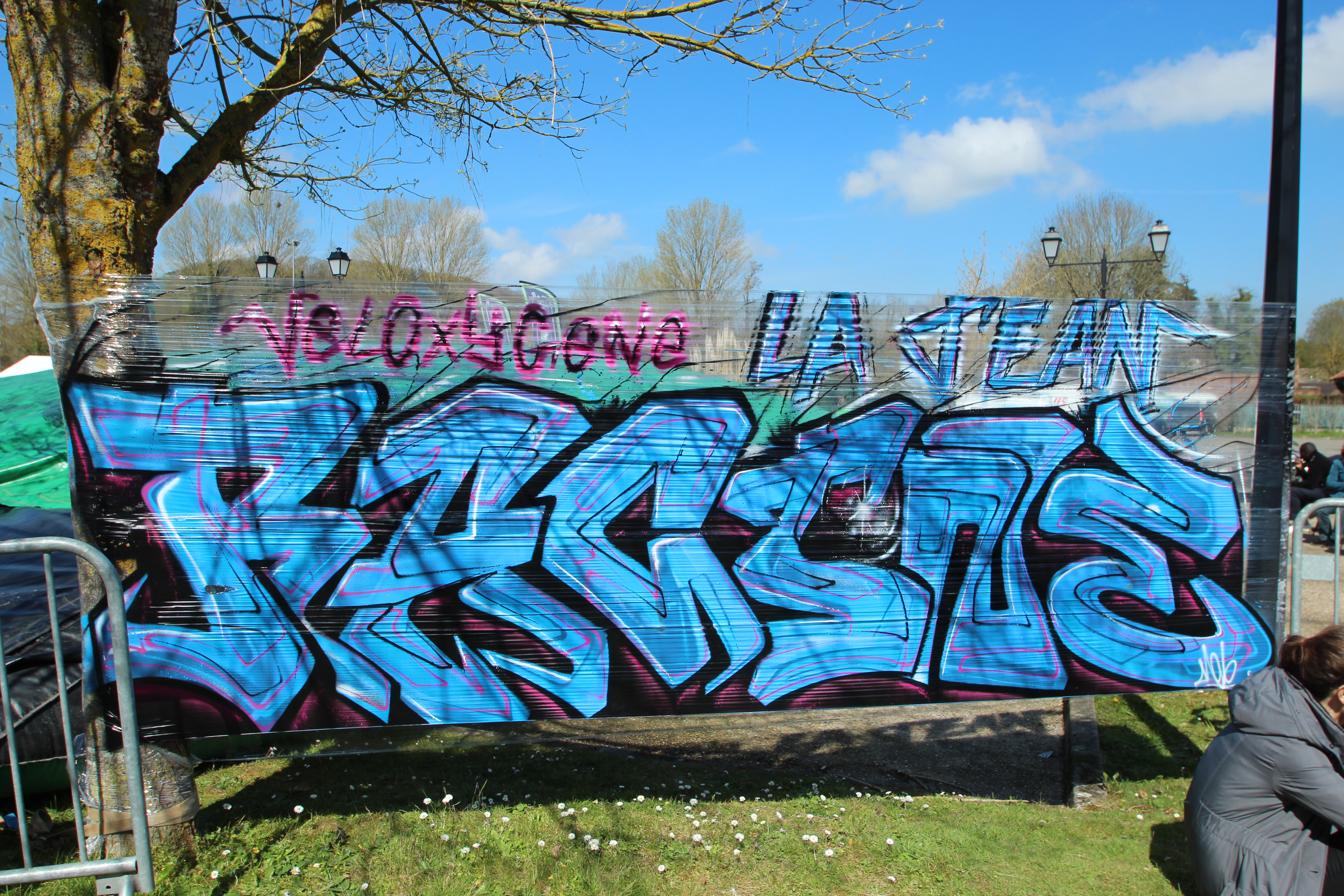 "La Jean Racine 2016" is a sporting event focused on mountain bike which took place on 9 and 10 April 2016 in Saint Rémy lès Chevreuse, France.